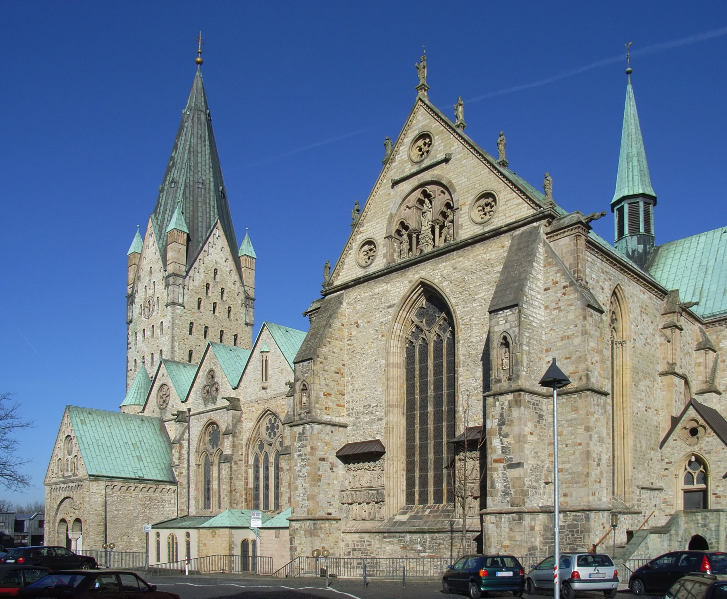 Paderborn, Deutschland: Paderborn Cathedral.